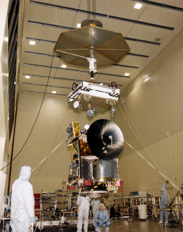 Mars Climate Orbiter photo taken in the Lockheed Martin Astronautics facility in Denver, Colorado in January 1998. It shows the assembly of the Mars Surveyor 98 Orbiter.